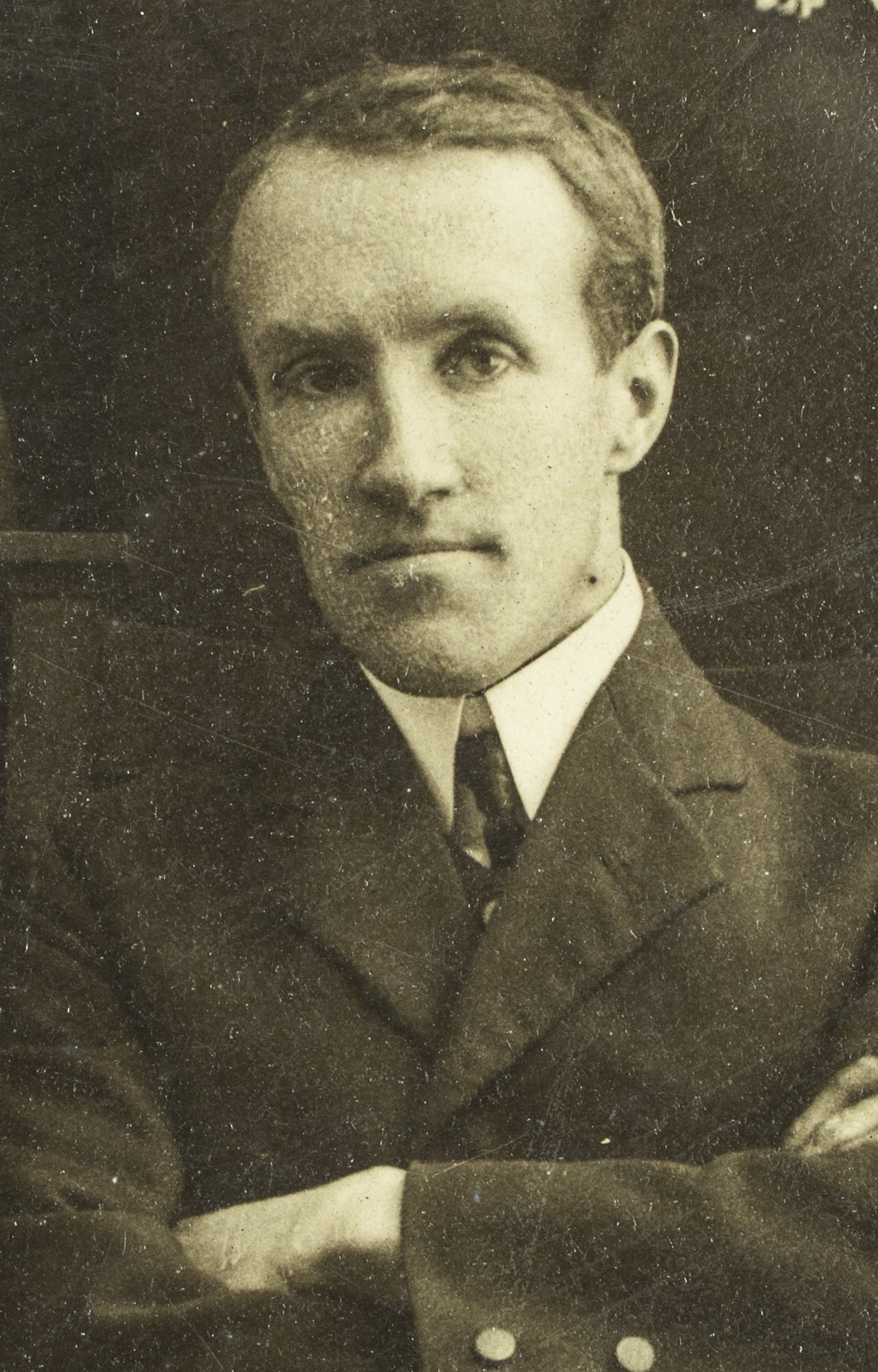 L A Ellerbeck 956-6